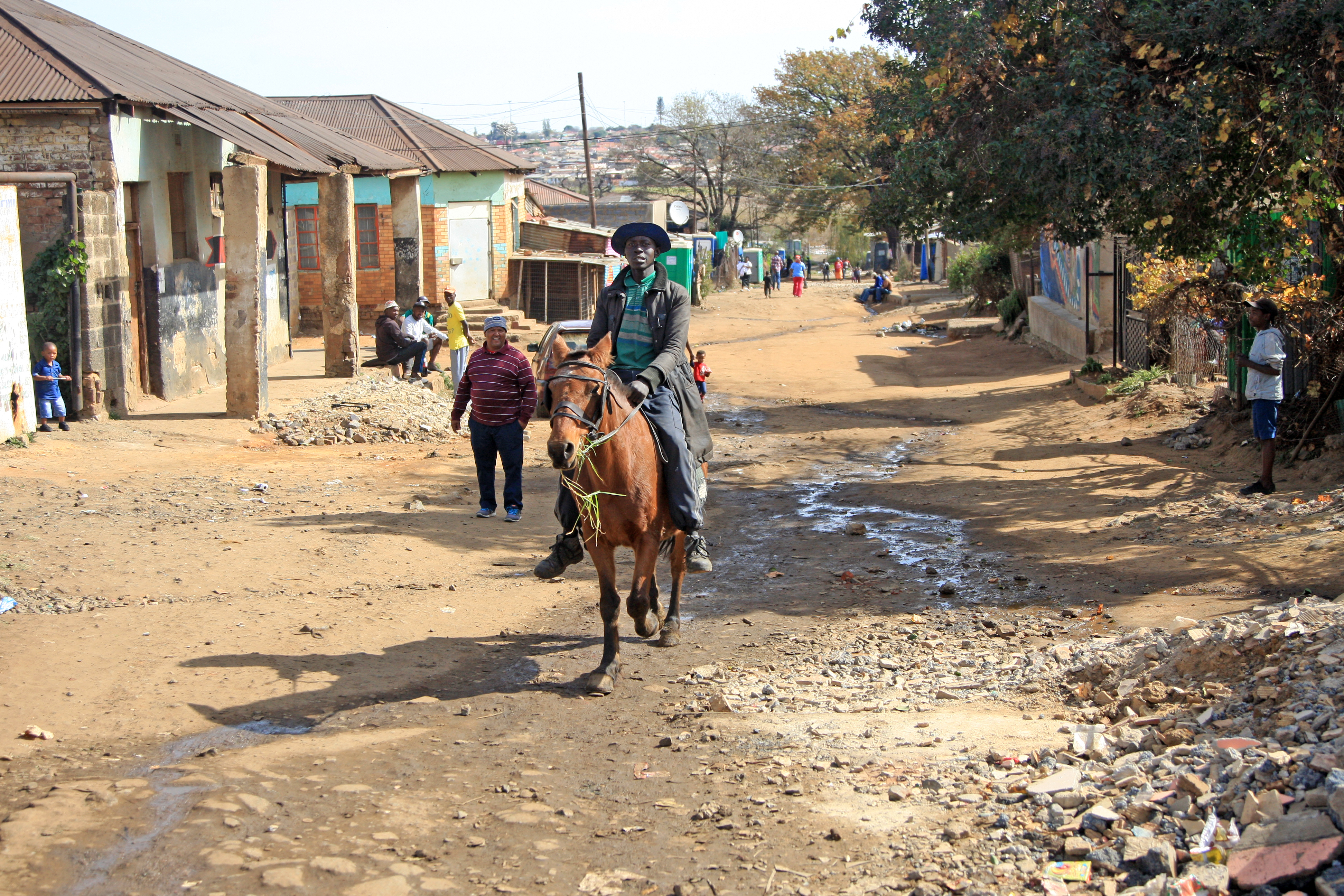 Horse Transportation in Soweto This is an image with the theme "Africa on the Move or Transport" from: South Africa